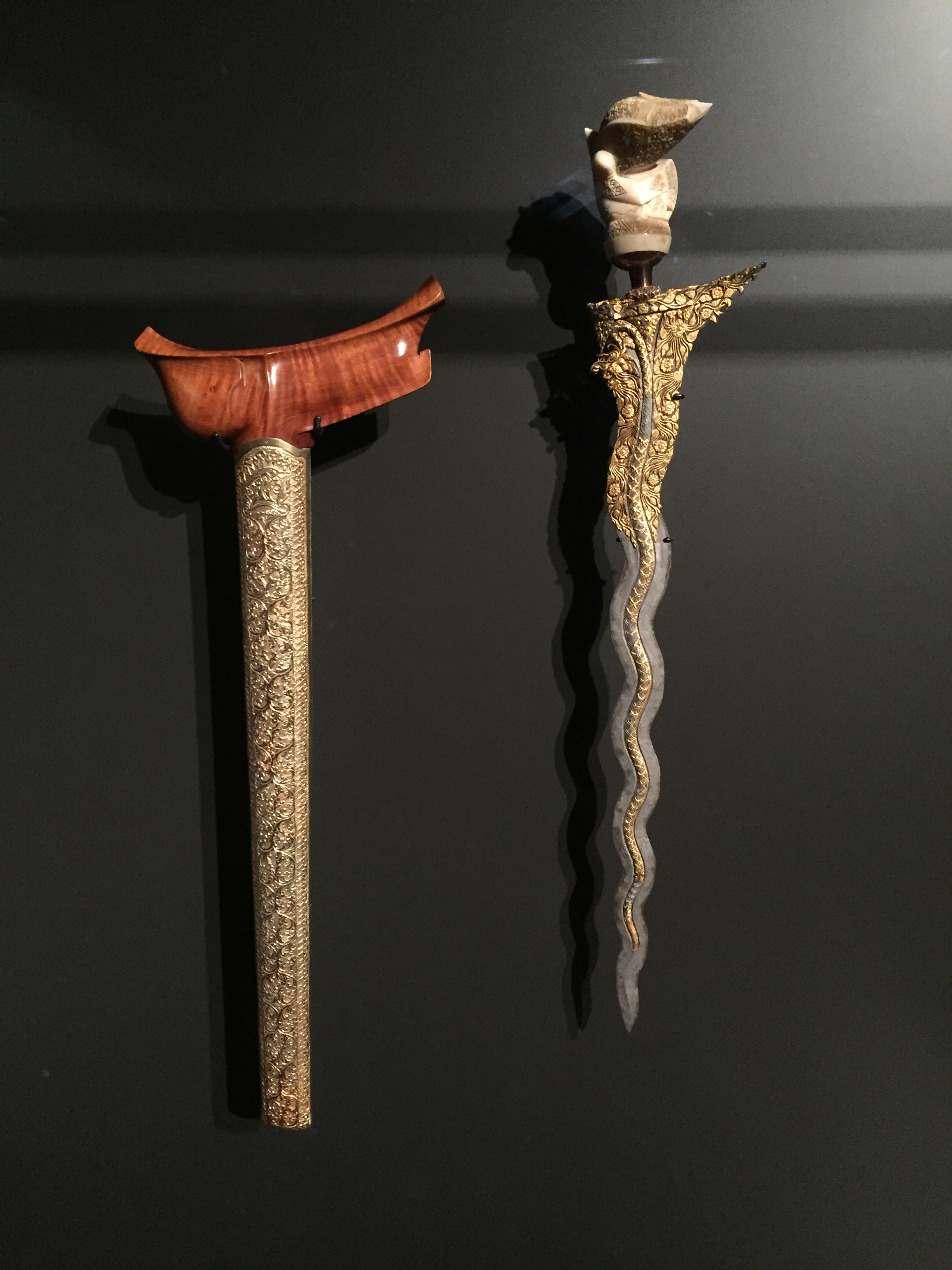 A sample of Malay kriss once belongs to a nobleman from Sumatera